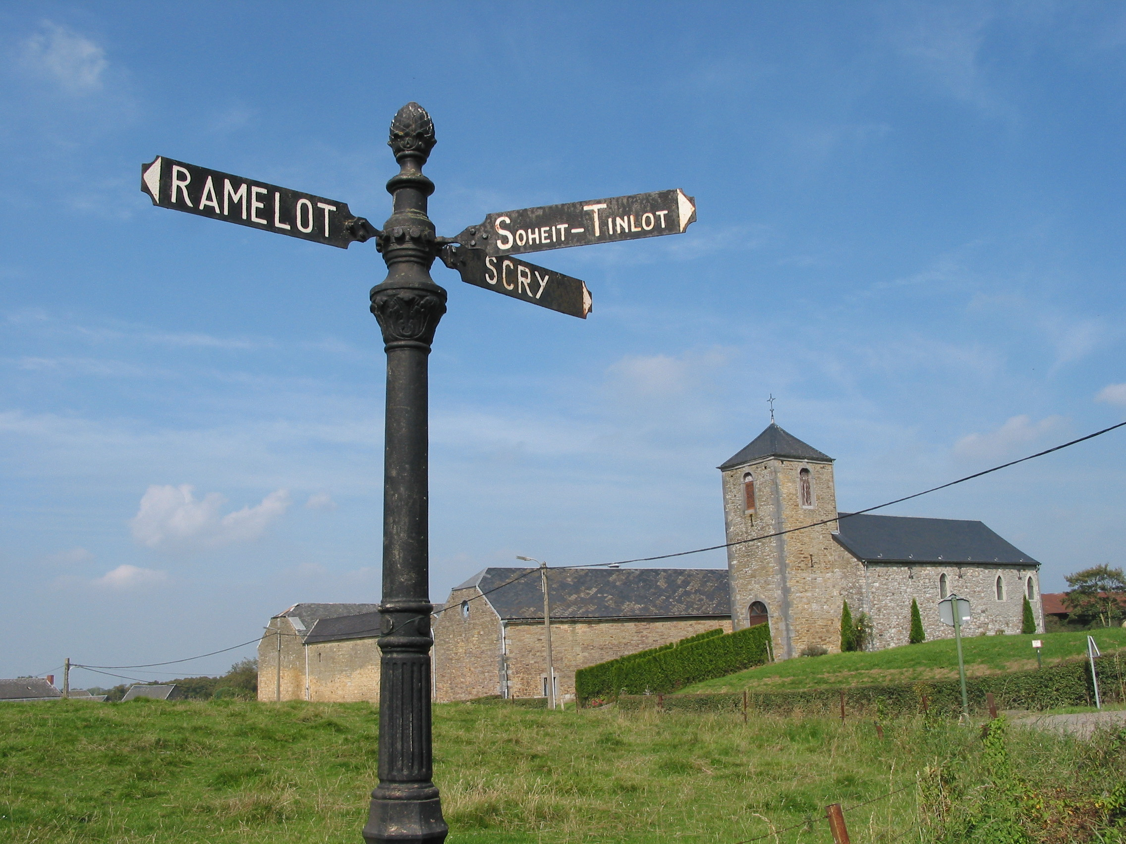 Abée (Belgium), the neighbourhood of the Saint Donatus’ chapel.